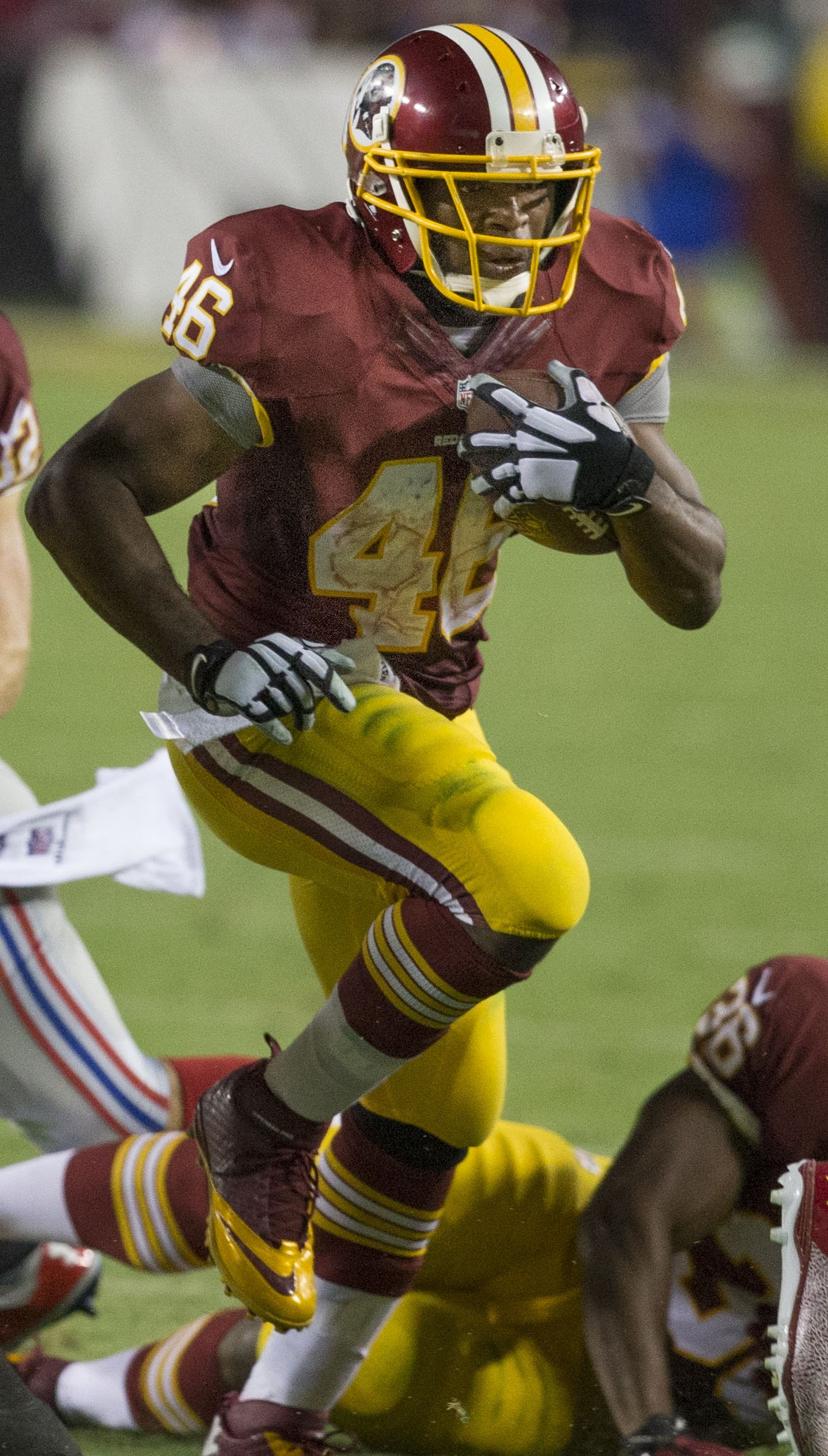 Giants at Redskins 9/25/14